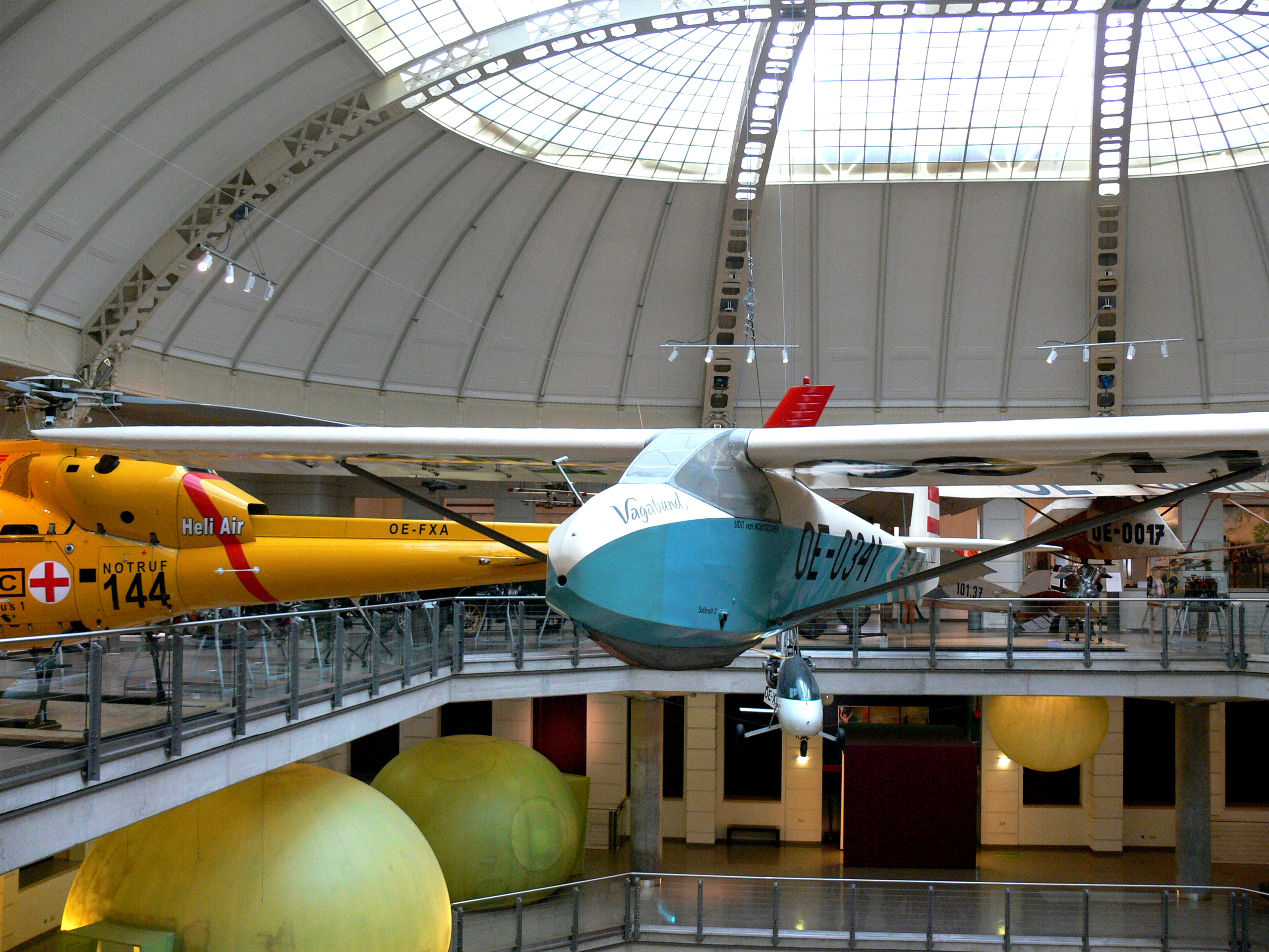 Technical Museum Vienna. Hütter H 17 b glider ( 1956 )